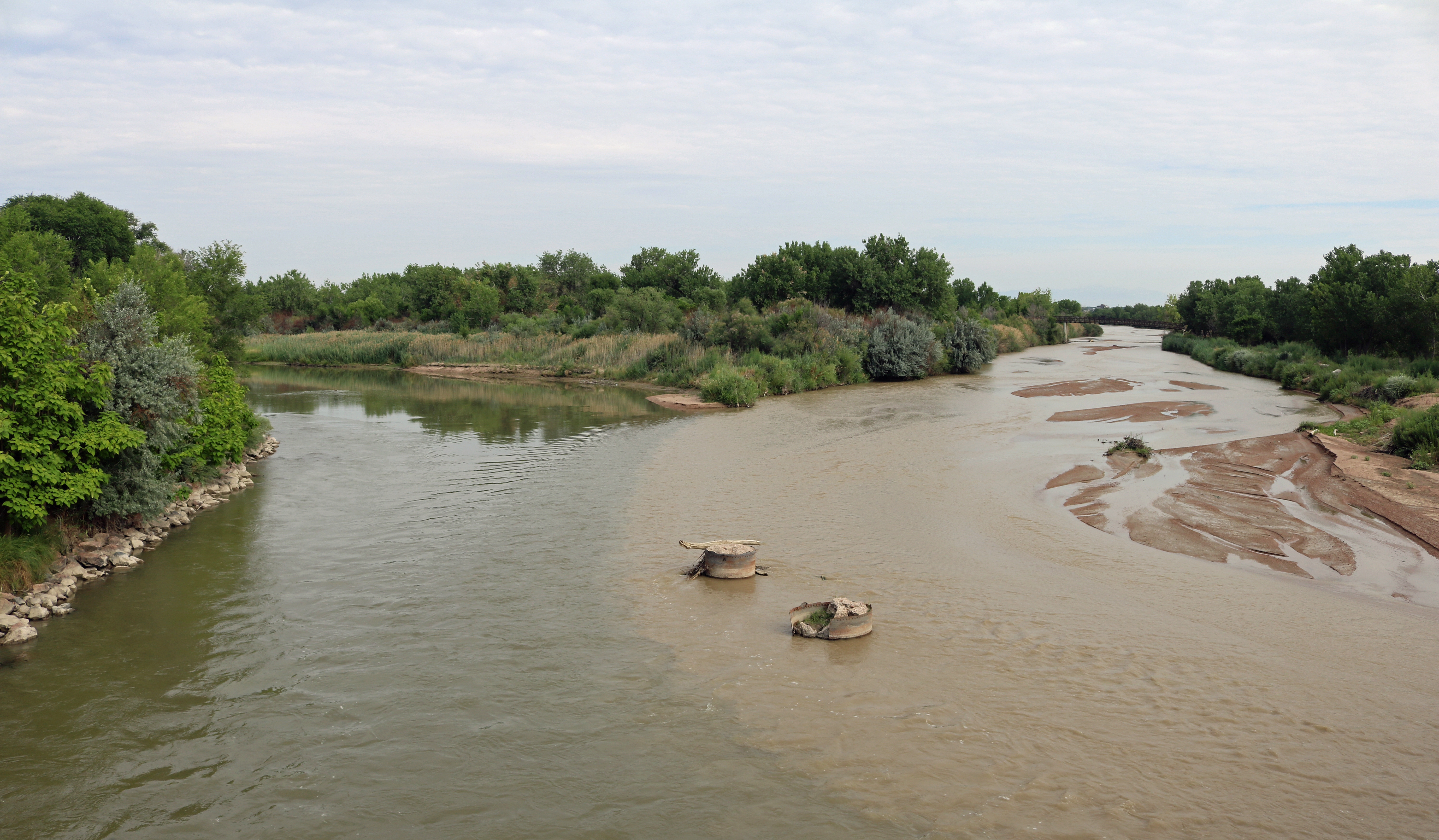 The confluence of the Arkansas River (left) and Fountain Creek just east of Pueblo, Colorado.